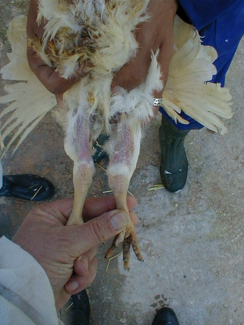 Hock enlargement (right) in a parent flock, about 12-weeks-old probably due to avian viral arthritis Walon: Houzaedje do djeret (a droete) a ene poyete mere ås poyons, d' a pô près 12 samwinnes, dandjreus a cåze del djonturite å virûsse ås poyes